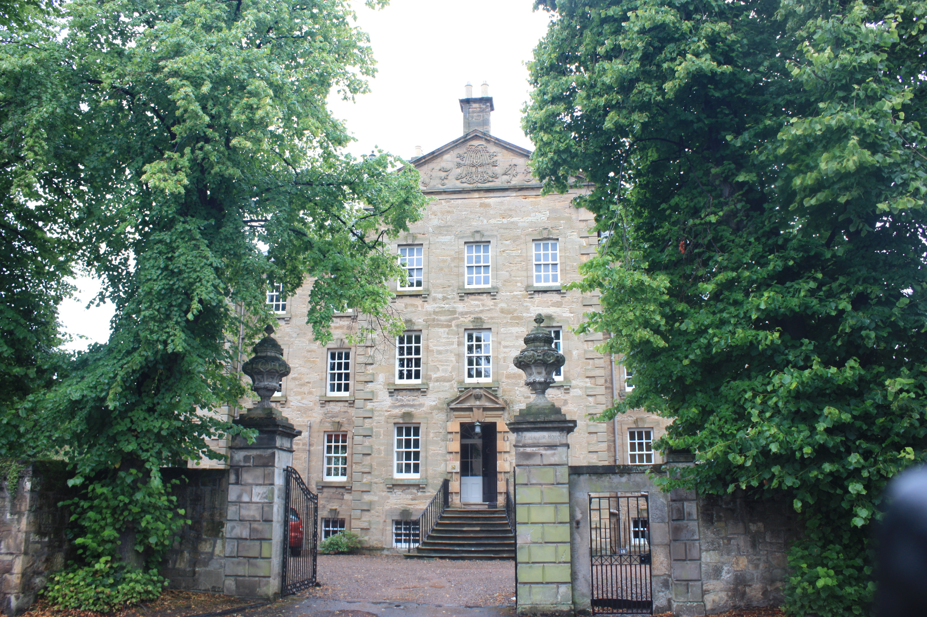 A typical mansion in Inveresk Village